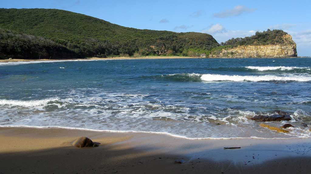 Images from our long weekend trip @ Terrigal in the Central Coast of NSW. June 2008